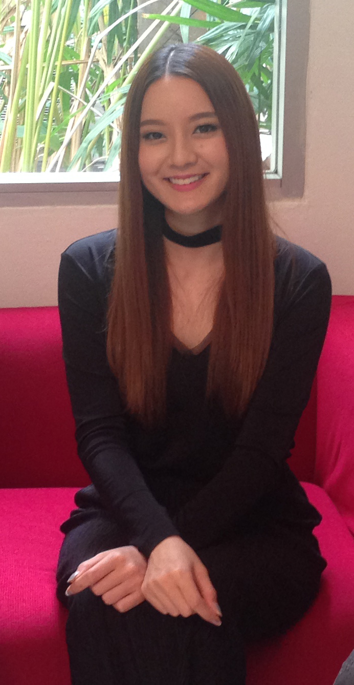 Ink Waruntorn at VERY TV.